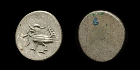 Cambodia 1600-1800 AD, Silver Hamsa bird Coin (Fuang)